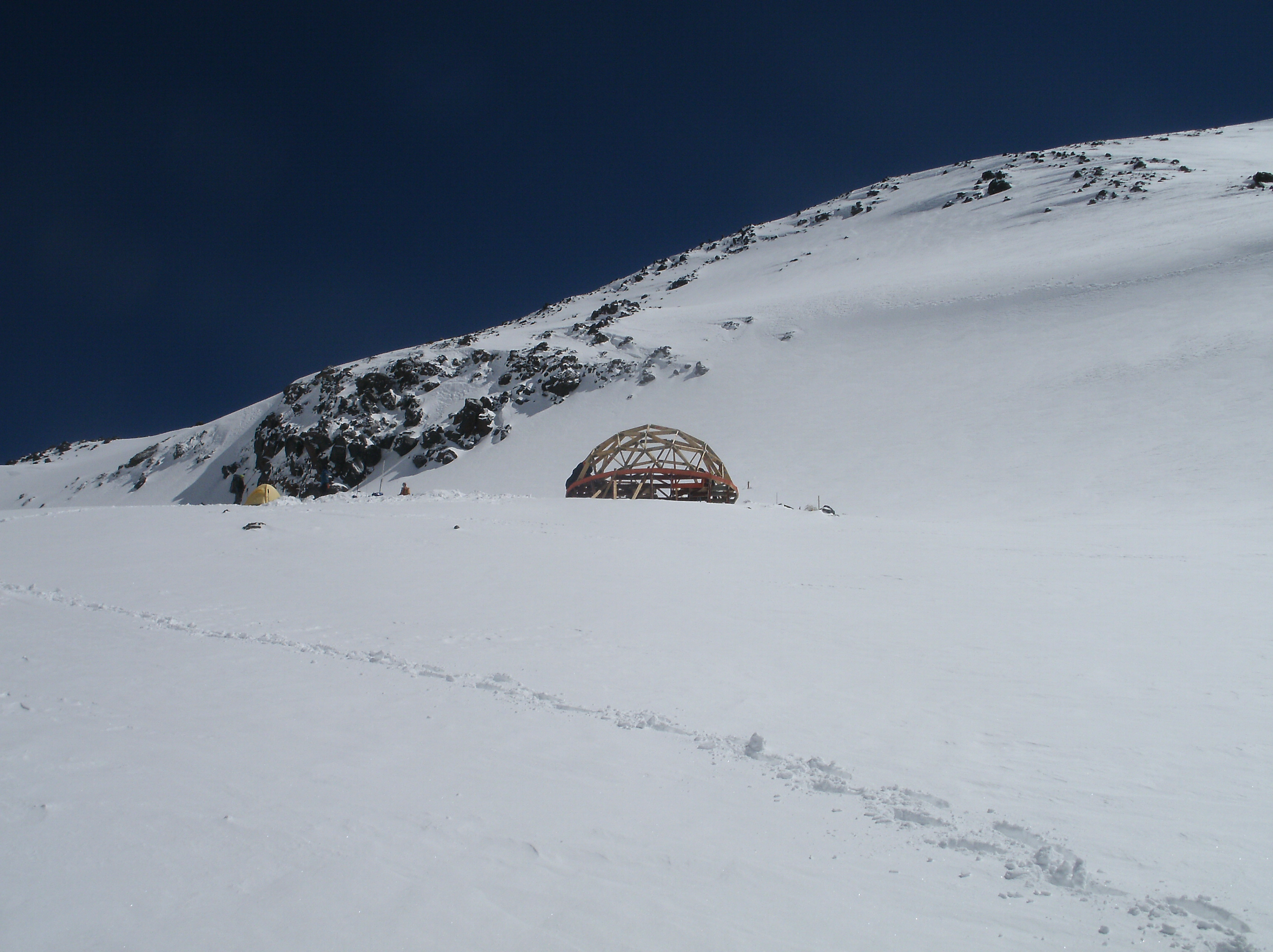 Elbrus region